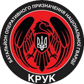 Shoulder sleeve insignia of the 4th Operational Purpose Battalion